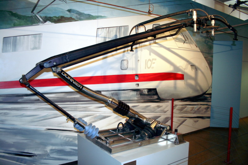 The panograph of the ICE world-record run (May 1st, 1988), on display at Deutsche Bahn museum in Nuremberg.